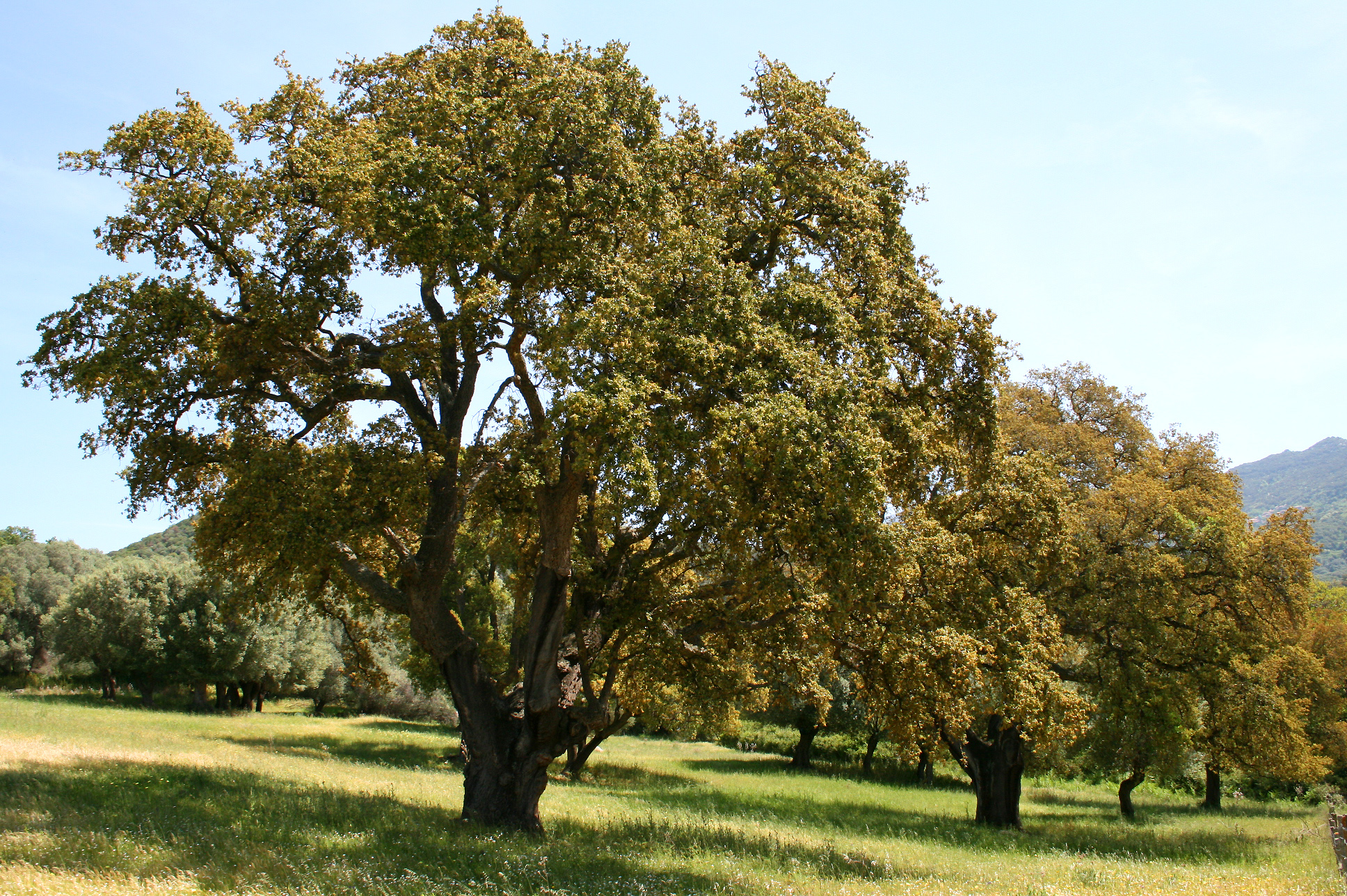 Cork Oak (Quercus suber) - Habitat: Filitosa site, ( Corse-du-Sud) - France. Corsu: Suvara (Quercus suber) - Filitosa ( Corsica sutanna) - Francia. Walon: Tchin.ne lîdje (Quercus suber) - Place: site di Filitoza, (Corse-do-Sud) - France.